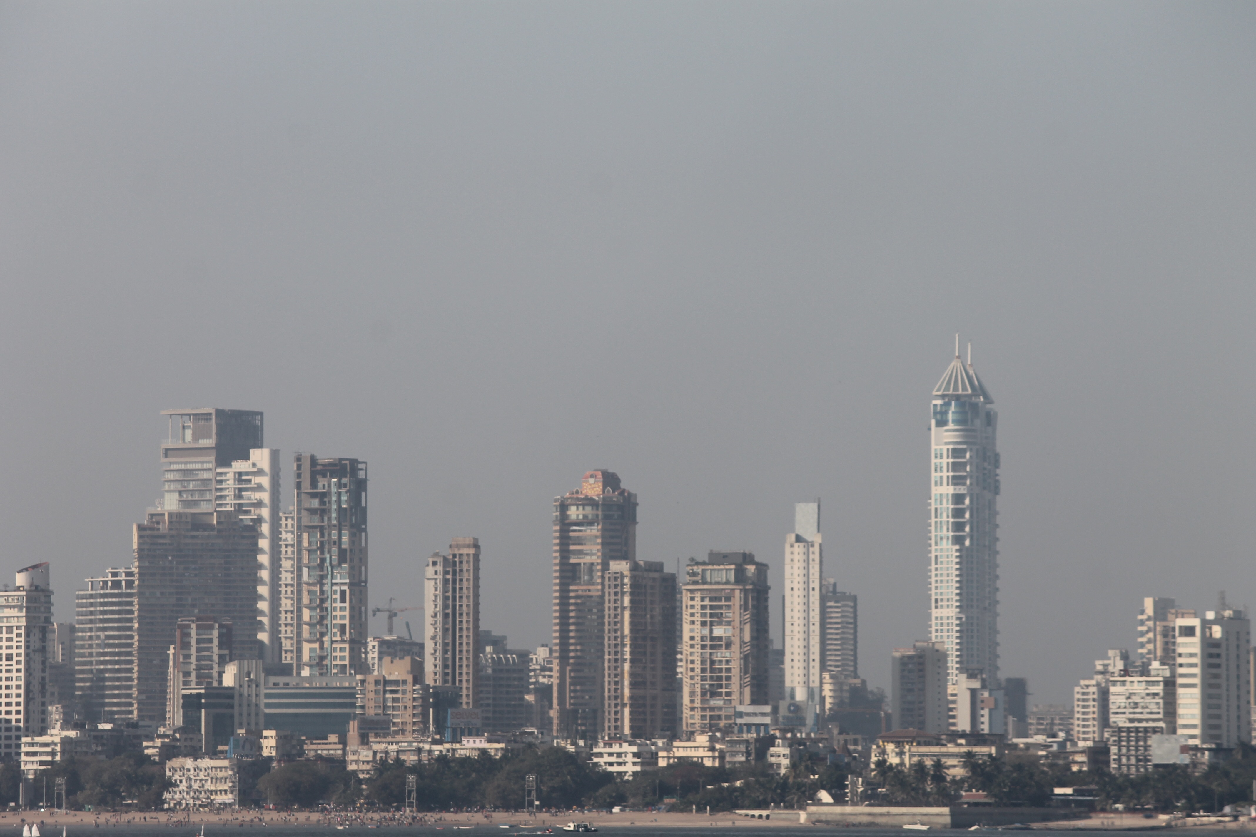 Tall buildings seen from Marine drive in Mumbai